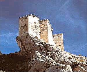 self-taken photograh of the Marquis of Vélez' castle at Mula, in Murcia (Spain)